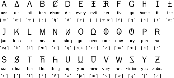 Unifon alphabet with phonetic transcription of the characters